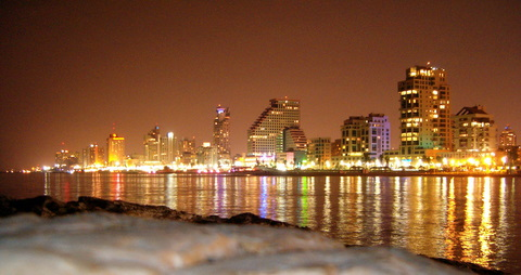 Tel-aviv, Israel. Night view of the shore line.